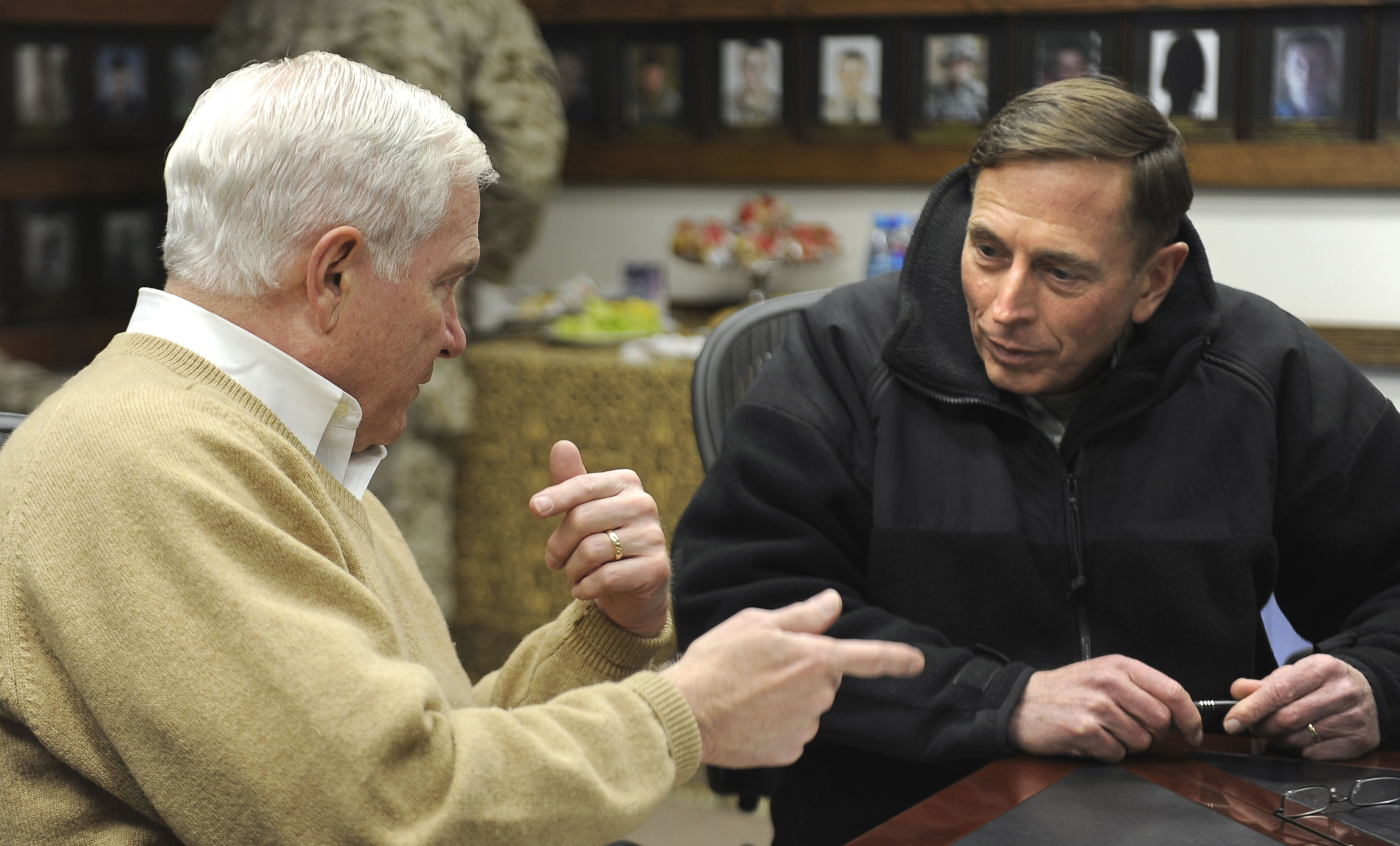 U.S. Defense Secretary Robert M. Gates, left, talks with U.S. Army Gen. David H. Petraeus, commander of NATO's International Security Assistance Force in Afghanistan, on Camp Eggers in Kabul, Afghanistan, Dec. 7, 2010.